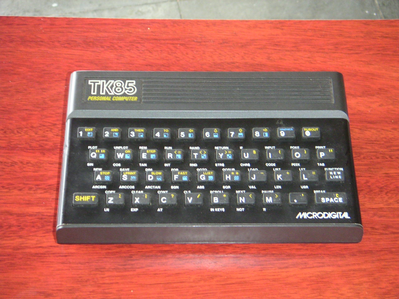 Brazilian ZX81 clone from the 1980s.